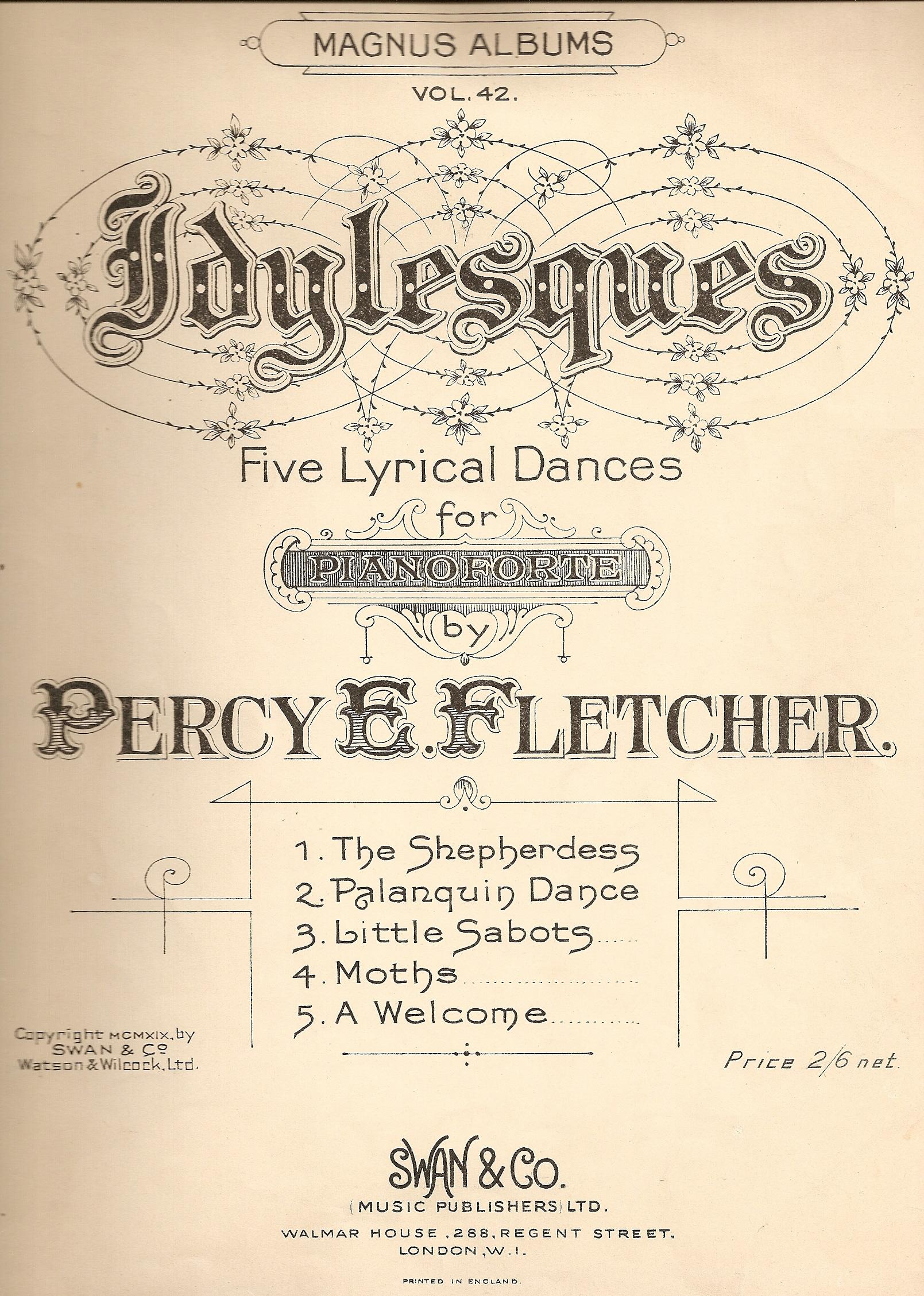 The cover page of Percy Fletcher's Idylesques, a collection of five piano works.